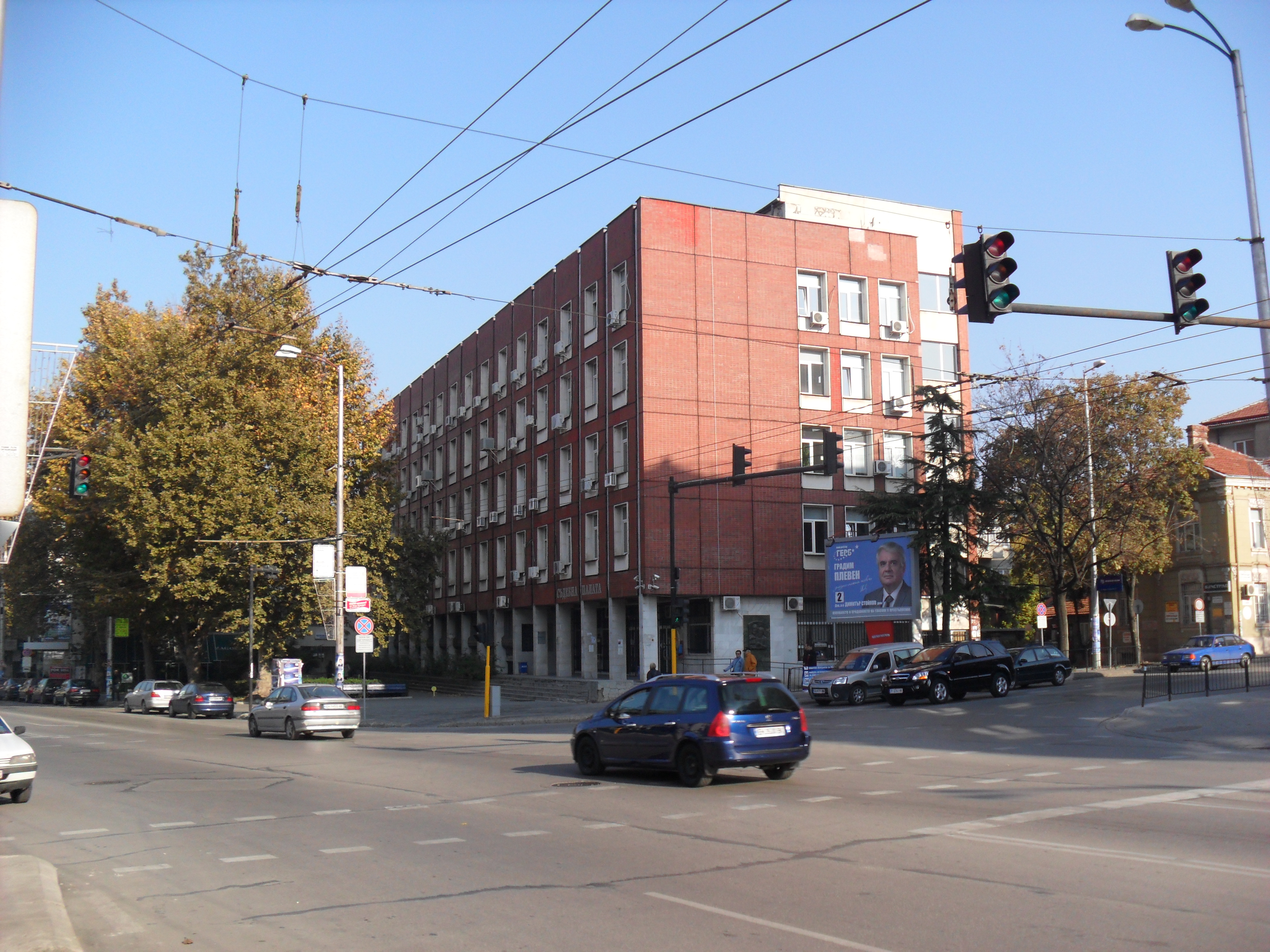 The ccourthouse in Pleven behind the cityhall